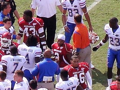 London Crawford, #2 shakes hands with Florida players after a football game at Razorback Stadium This file has been extracted from another file: End of game handshake, UF at Arkansas.jpg